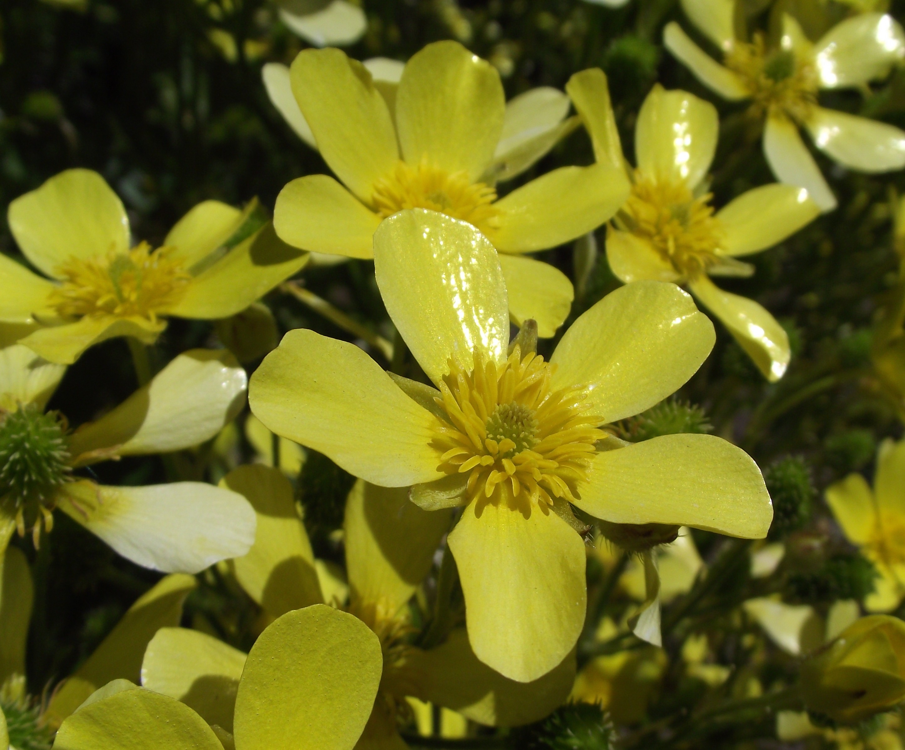 Ranunculus cortusifolius in the UC Botanical Garden, Berkeley, California, USA. Identified by sign.